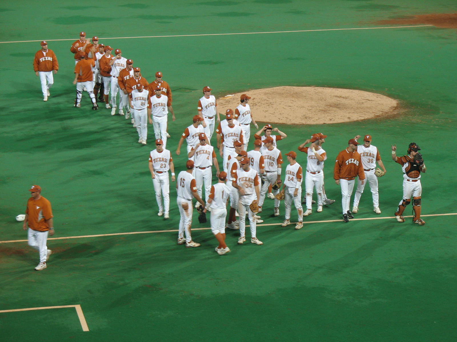 Eyes of Texas after a Texas Baseball game against University of Oklahoma @ UFCU Disch-Falk Field